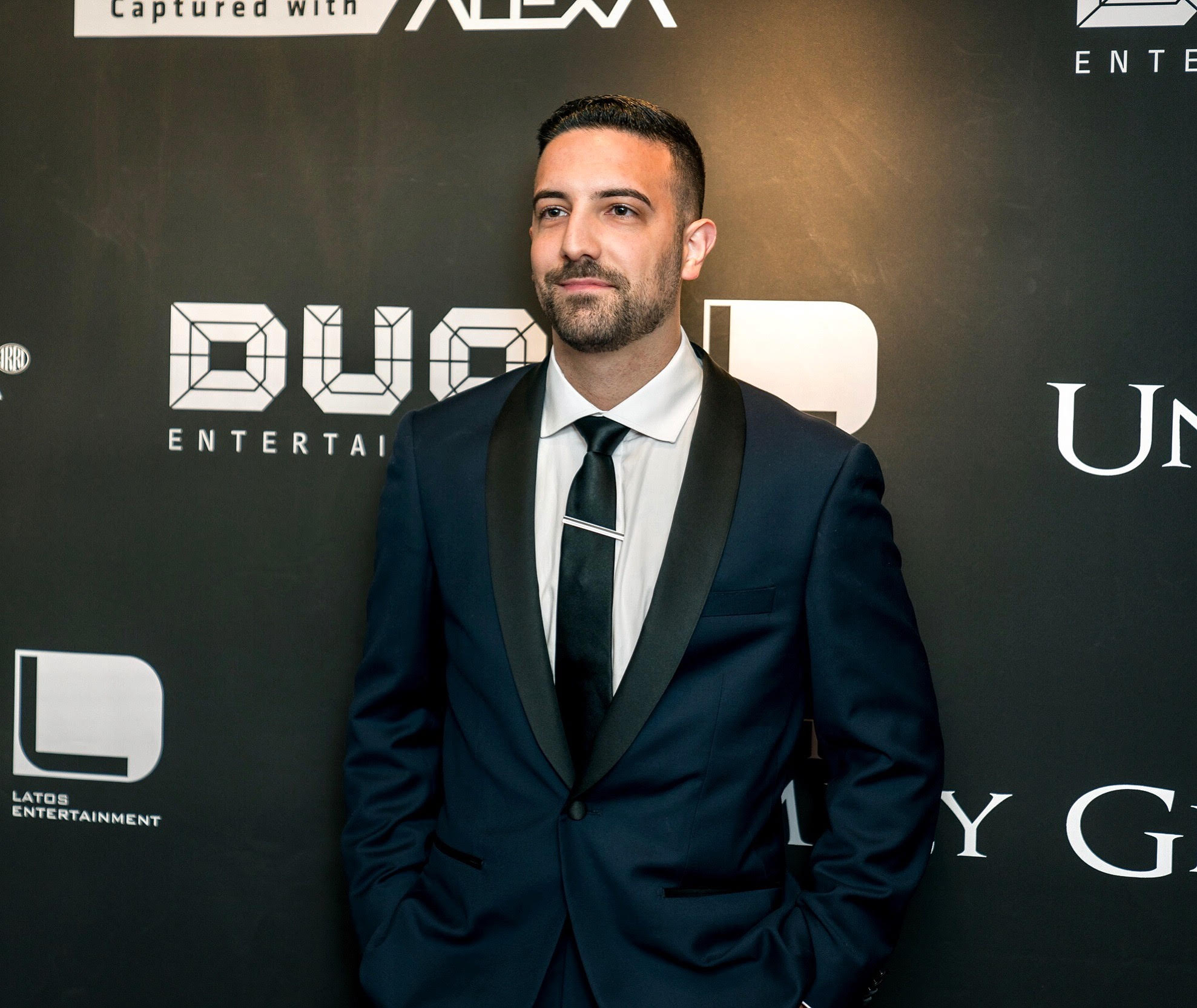 Dennis Latos at the Director's Guild Theatre in New York City, October 2017